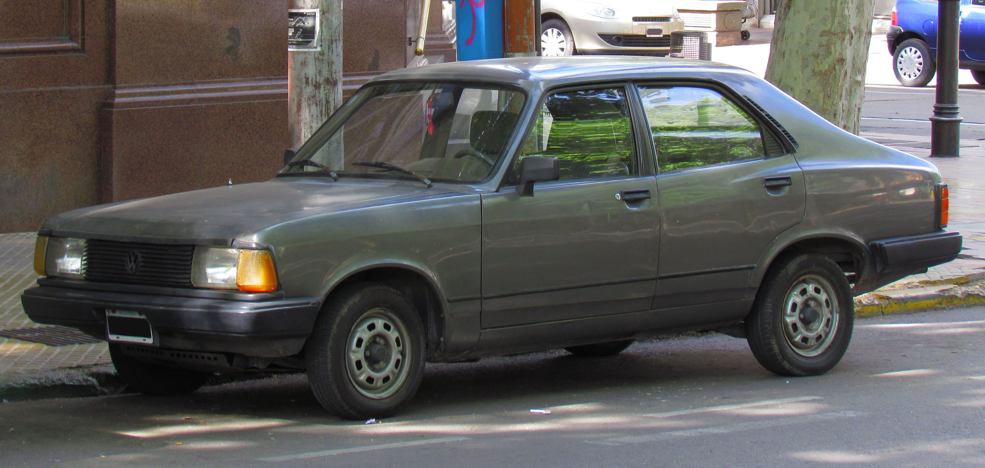 1983 Volkswagen 1500 (which began life as the Hillman Avenger)